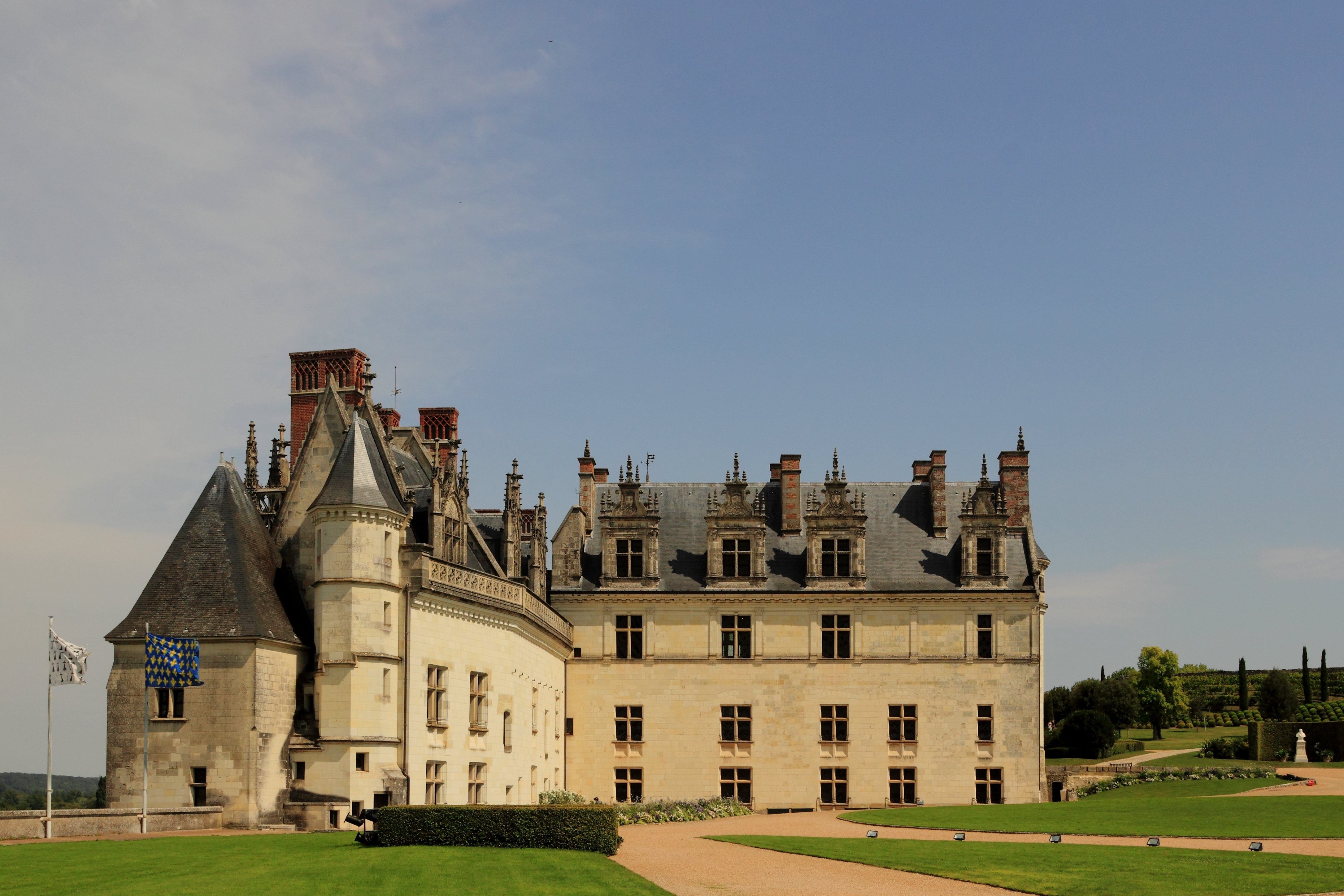 Amboise Castle